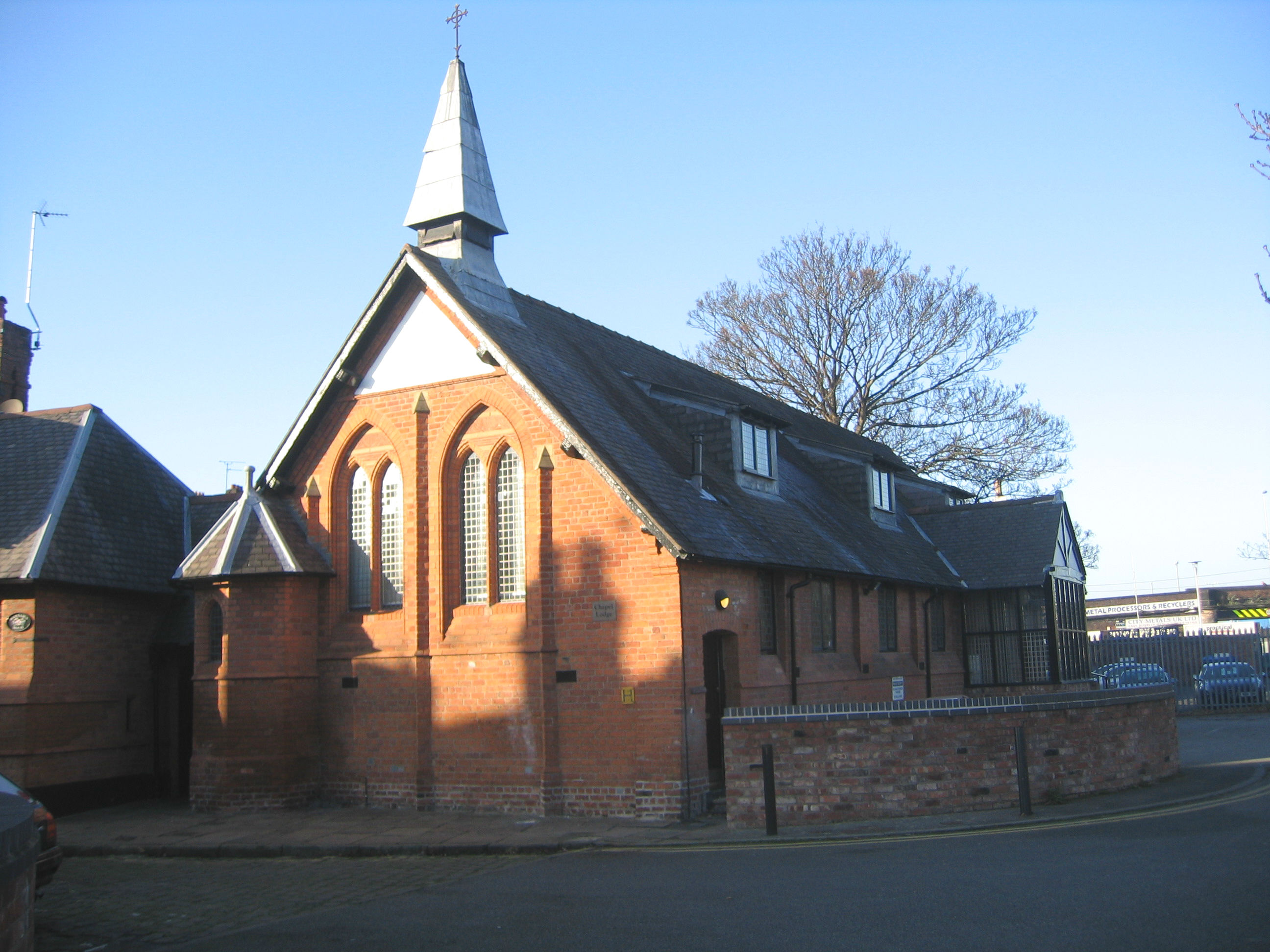 Photograph of St Barnabas' Church, Chester